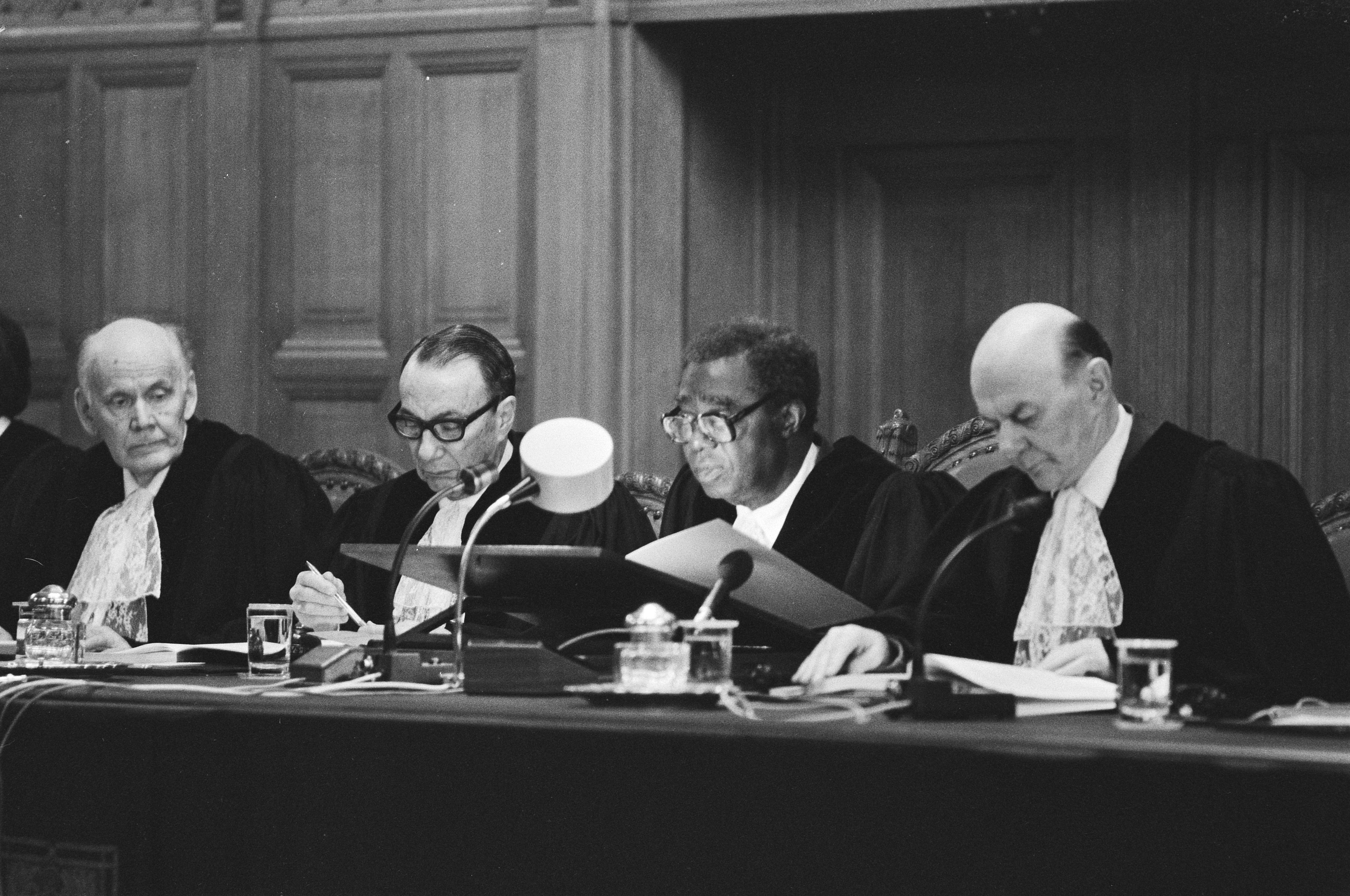 International Court of Justice (The Hague, NL), 26 Nov. 1984. Case: Nicaragua vs. USA. From left to right: Platon Dmitriejevitsj Morozov, José Sette Câmara Filho, Taslim Olawale Elias (president) and Manfred Lachs